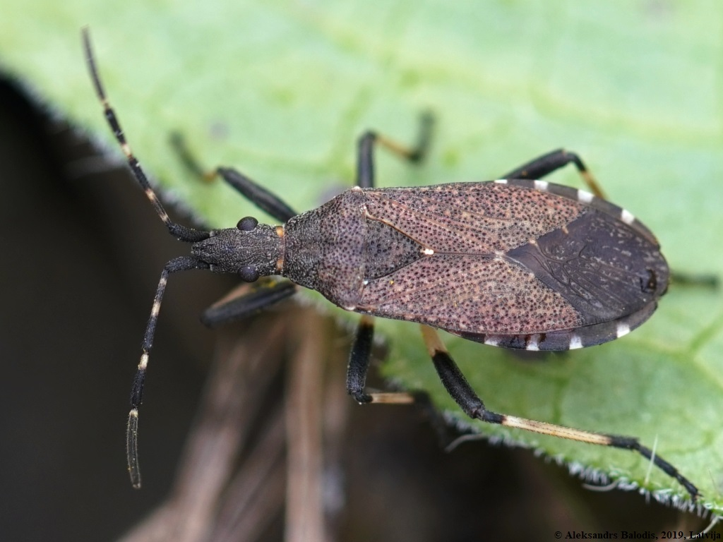 Dicranocephalus medius